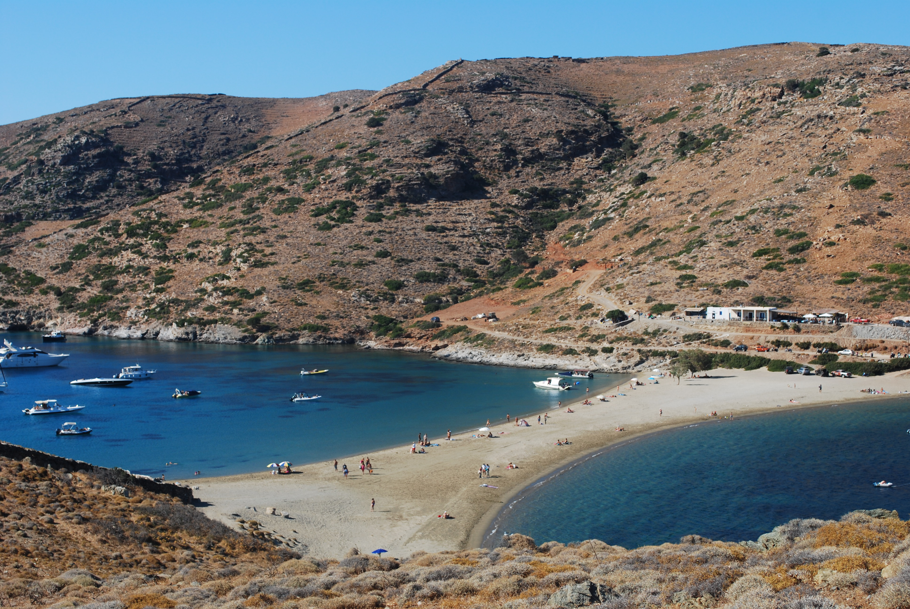 Kythnos (Greek Island)